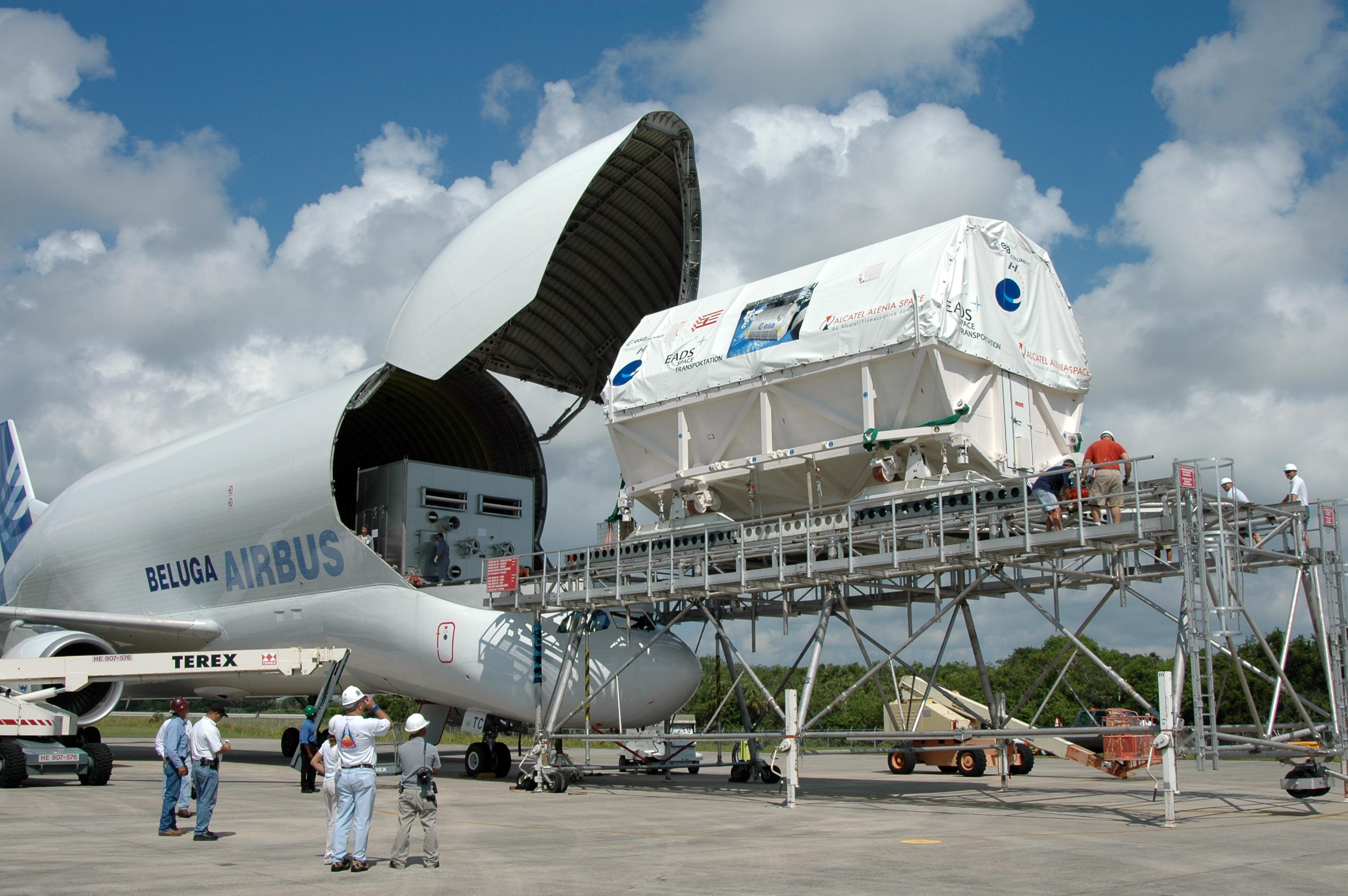 KENNEDY SPACE CENTER, FLA. – At the Shuttle Landing Facility, the European Space Agency's research laboratory, designated Columbus, has been offloaded onto an Airbus Transport International platform. The module will be lifted off the platform onto a flat bed truck and transported to the Space Station Processing Facility at NASA's Kennedy Space Center. The module arrived on a Beluga Airbus May 30 at NASA's Kennedy Space Center from the manufacturer in Germany. In the SSPF, the module will be prepared for delivery to the International Space Station on a future space shuttle mission. Columbus will expand the research facilities of the station and provide researchers with the ability to conduct numerous experiments in the area of life, physical and materials sciences. Photo credit: NASA/Jim Grossmann